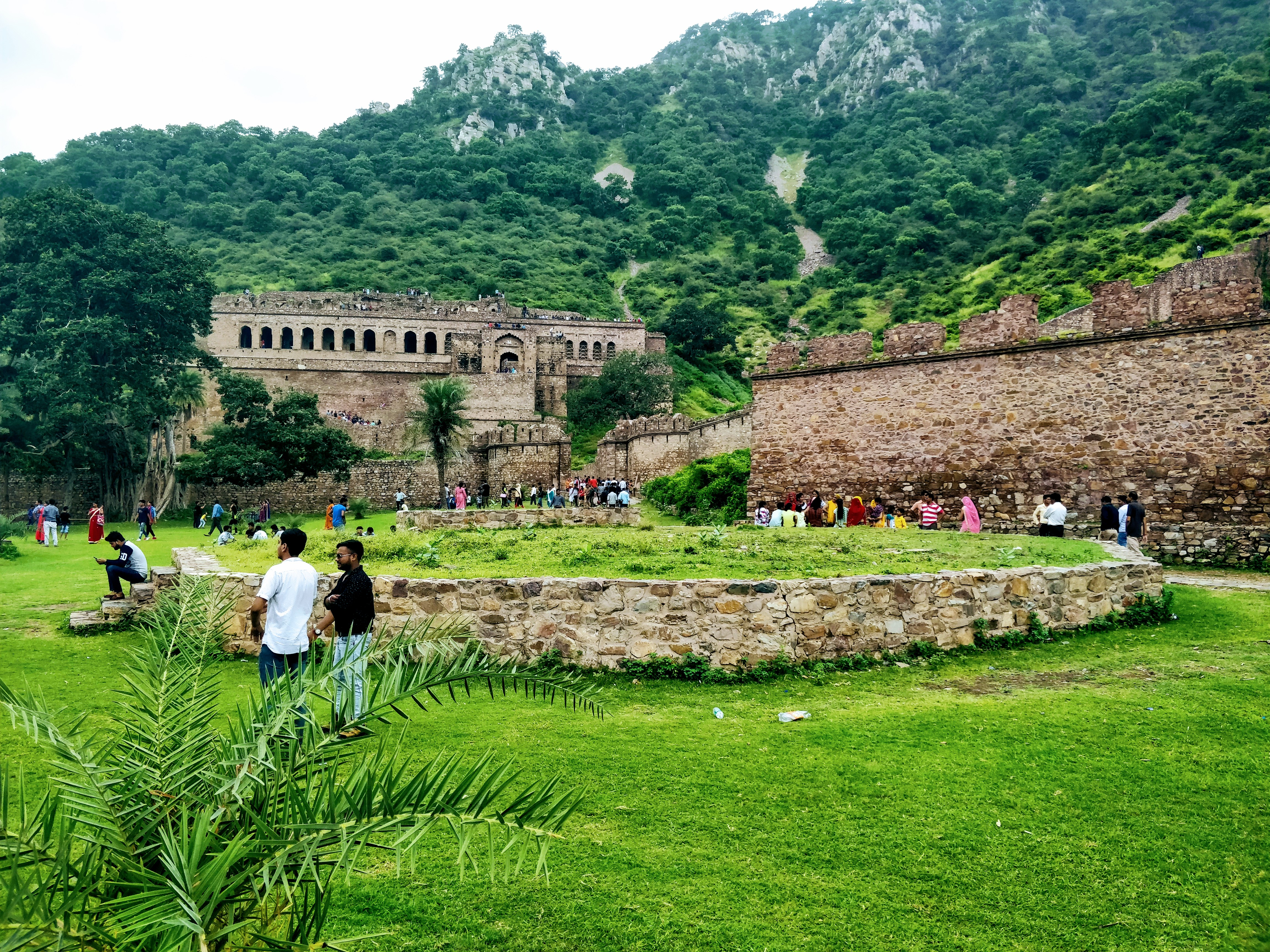 Distant view of Haveli at Bhangarh Fort, Rajasthan